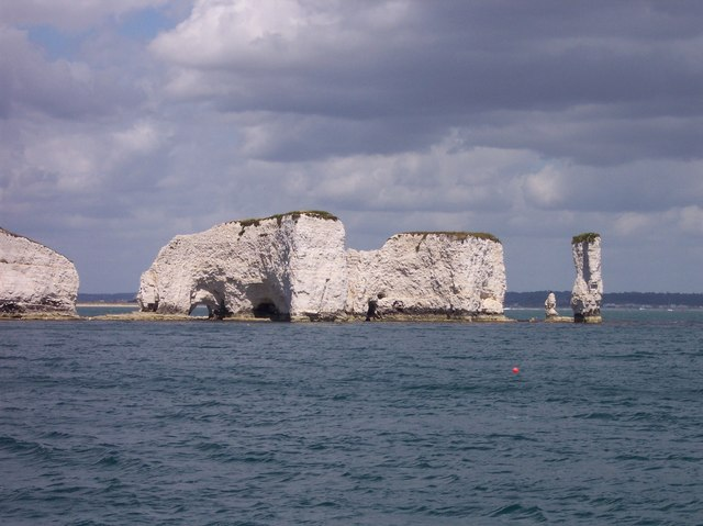 Old Harry Rock Taken from Swanage - Poole Ferry